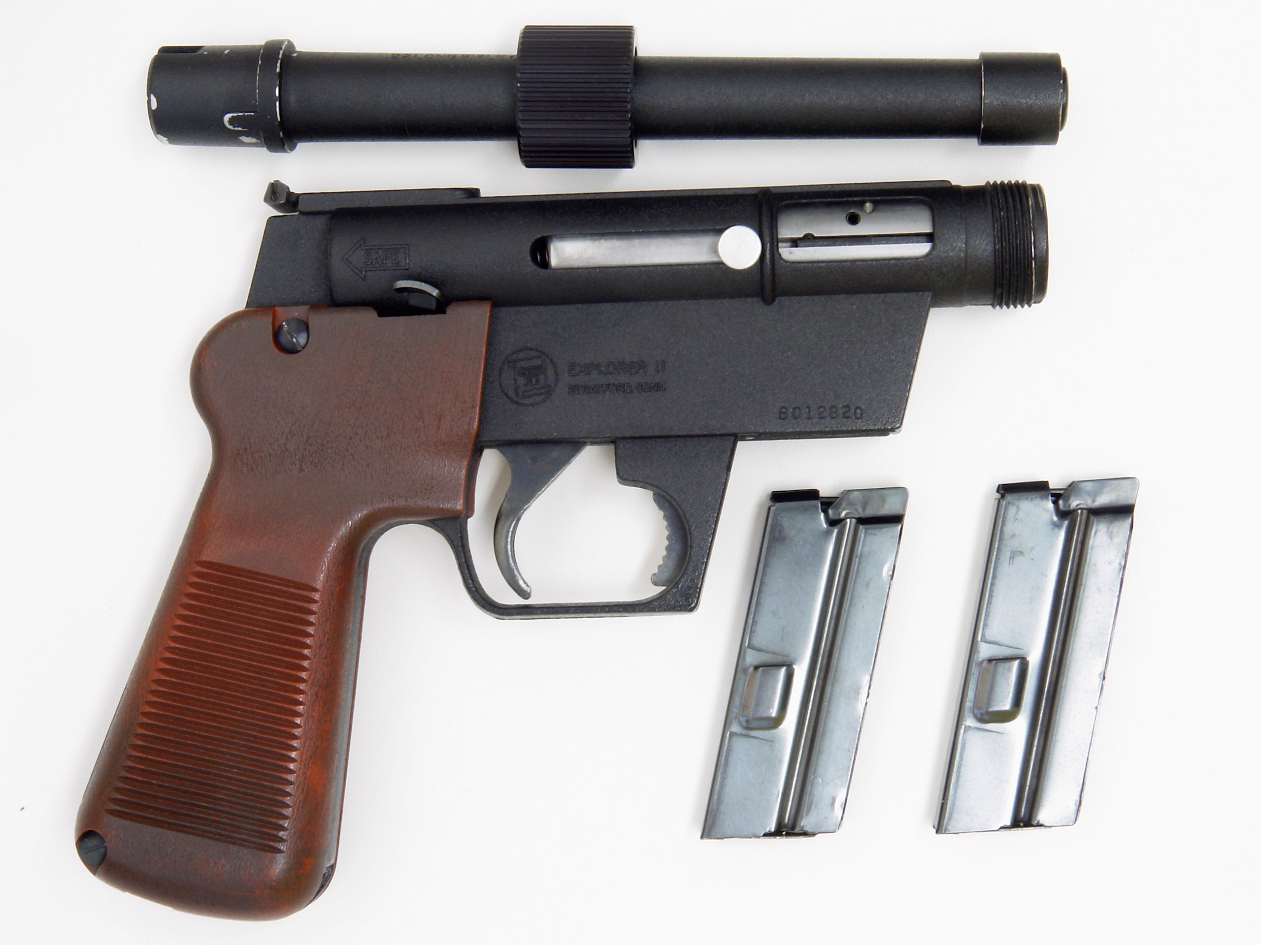 The .22 LR Explorer II pistol, manufactured by Charter Arms Co., is shown disassembled. An alignment lug visible on the bottom of the barrel prevents interchanging Explorer II barrels with AR-7 rifle barrels. The spare magazine stows in the pistol grip.